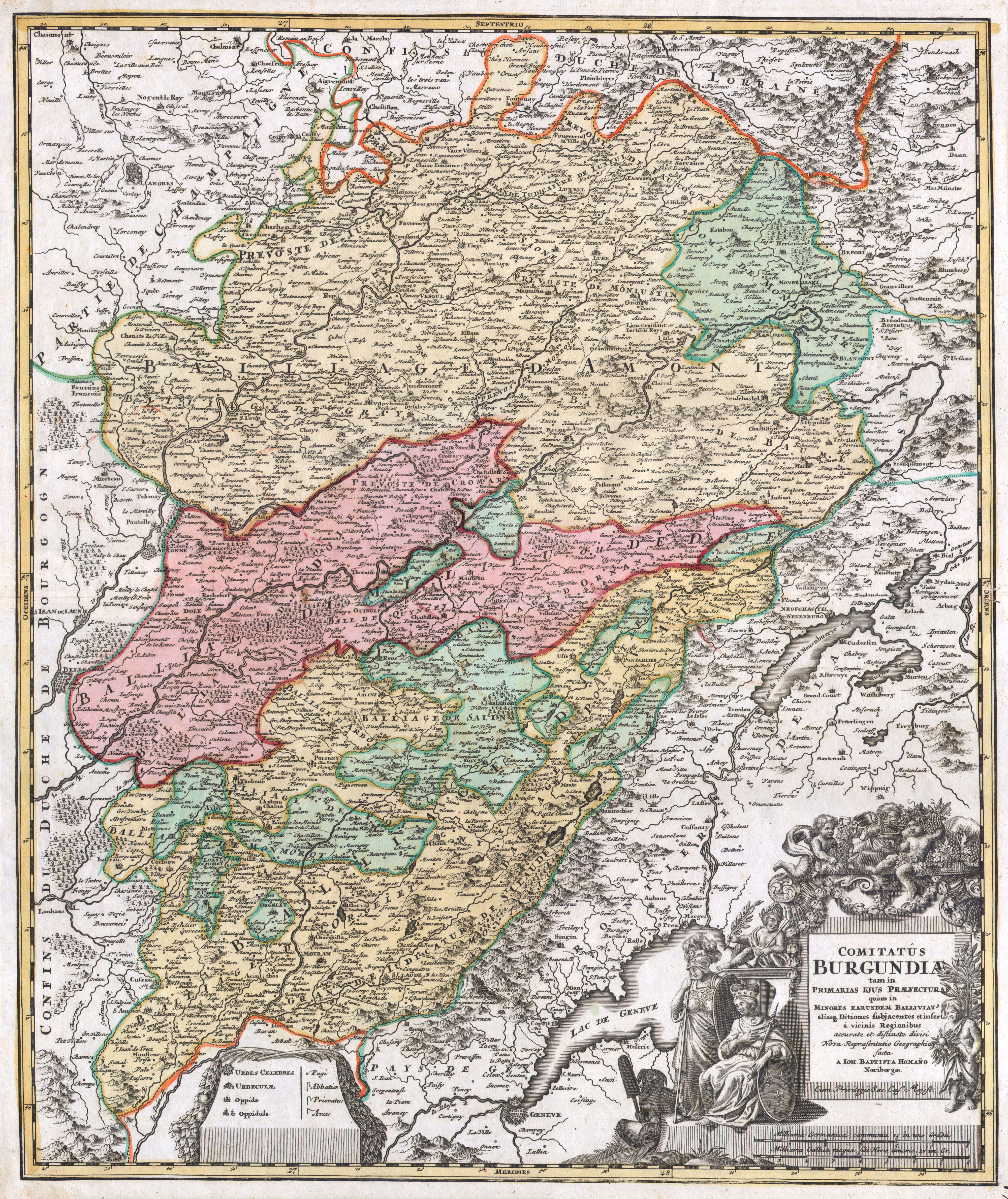 A fine example of Homann’s 1716 map of Burgundy, one of France’s most important wine regions. Extends to include Lake Geneva in the southwest, Lorraine in the north, Champaigne (Champagne) and Angers to the northwest and Bourgogne to the west. Depicts mountains, forests, castles, and fortifications and features an elaborate title cartouche decorated with cherub winemakers in the bottom right. A fine example of this rare map. Produced by J. H. Homann for inclusion in the Grosser Atlas published in Nuremberg, 1716.